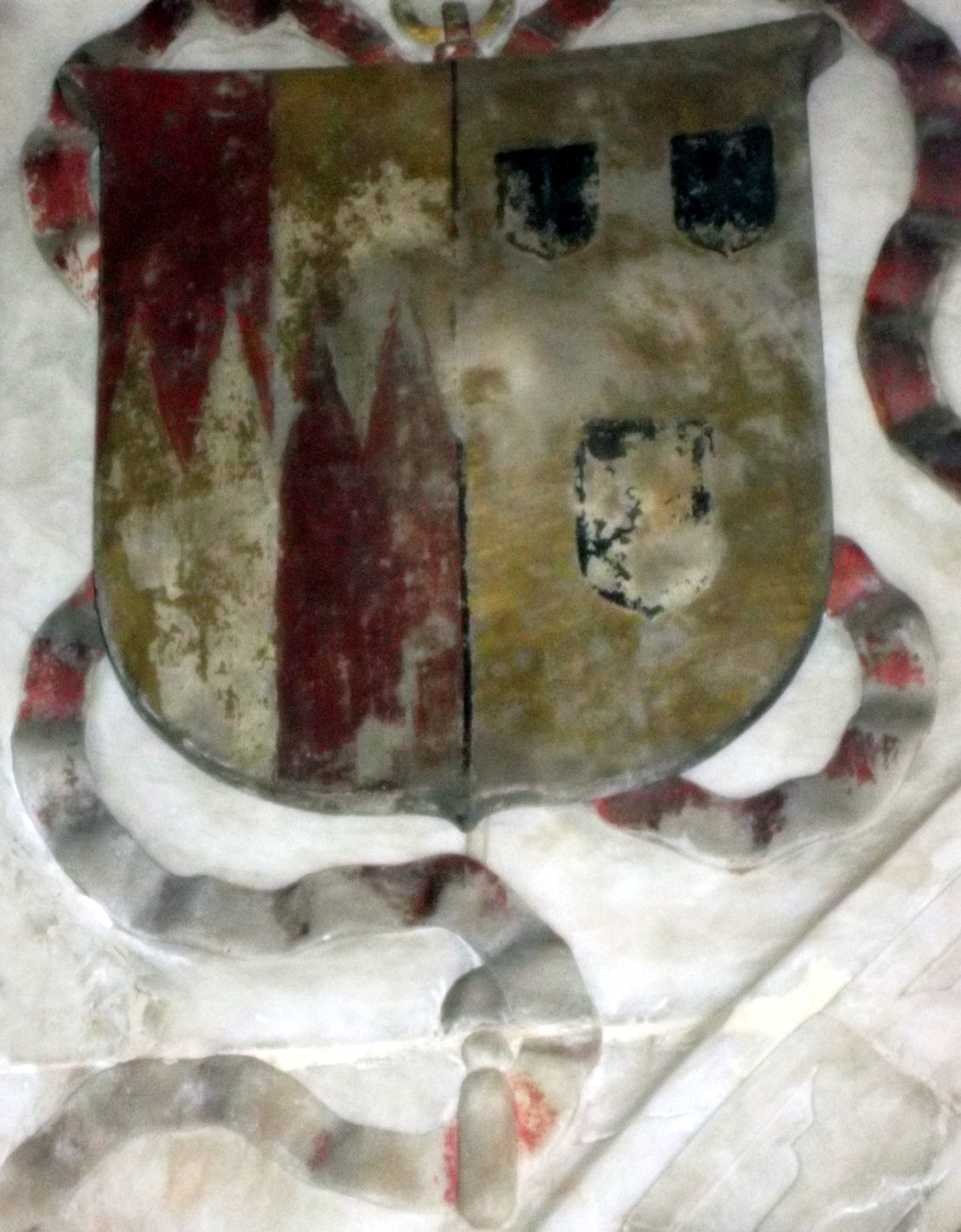 St Peter the Apostle, Worfield, Shropshire. Arms of George Bromley, a notable judge of the Tudor period, depicted on his tomb.